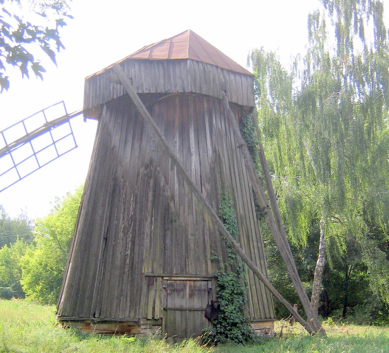 Windmill, Museum of folk architecture and way of life of Middle Naddnipryanschina, Ukraine